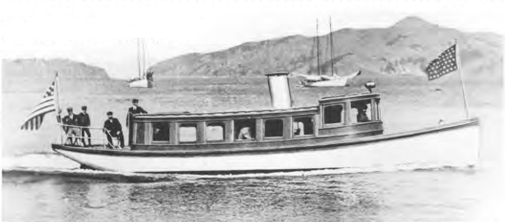 Waterwitch, built in 1900 by Peter Swanson, Belvedere, California. A fifty 50 foot sea going motor launch. Official boarding boat for the Hawaii Customs and Immigration service. Picture courtesy of the Hawai`i Maritime Center/Bishop Museum